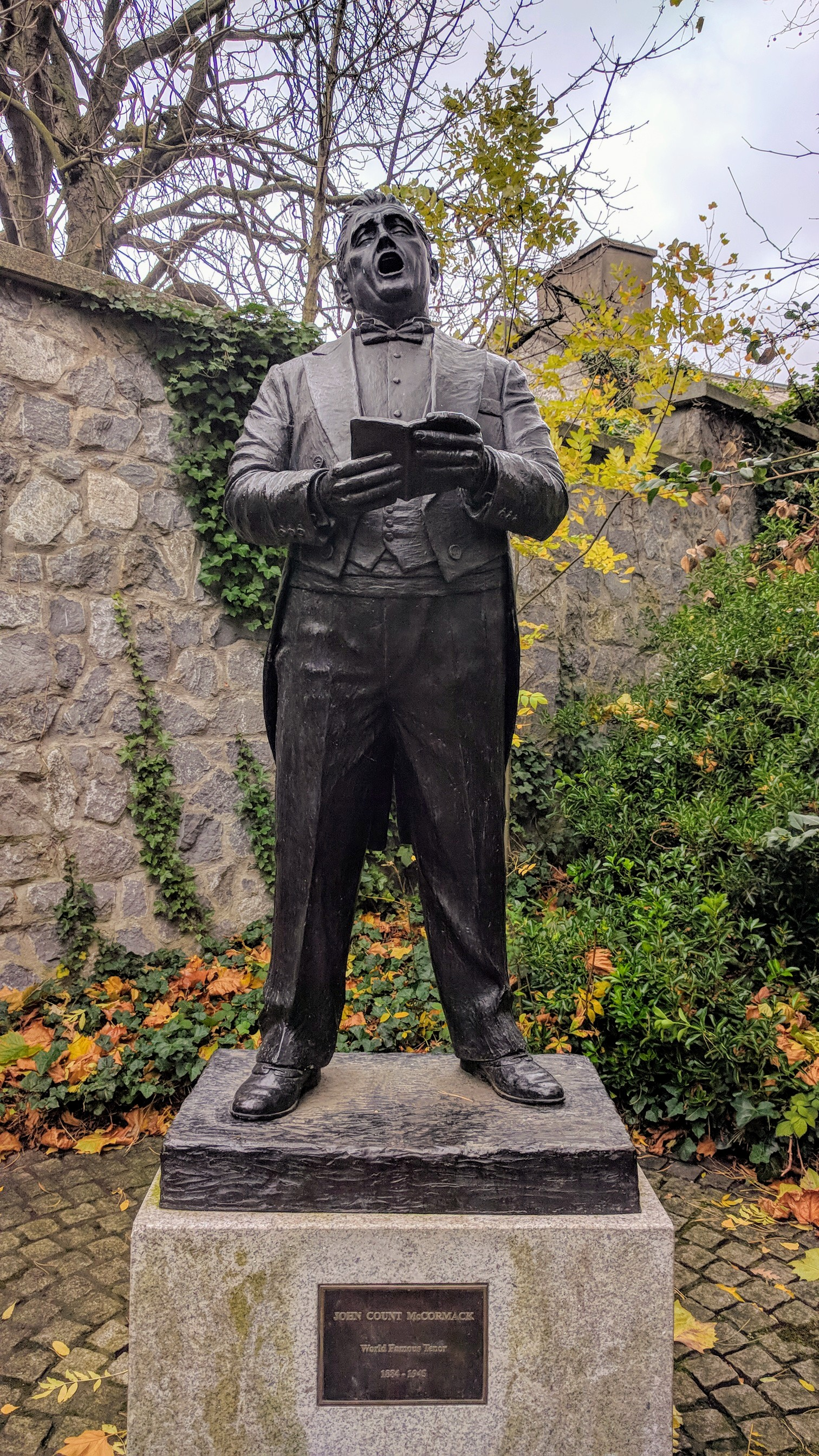 Statue of Irish tenor John McCormack in Iveagh Gardens, Dublin, Ireland.